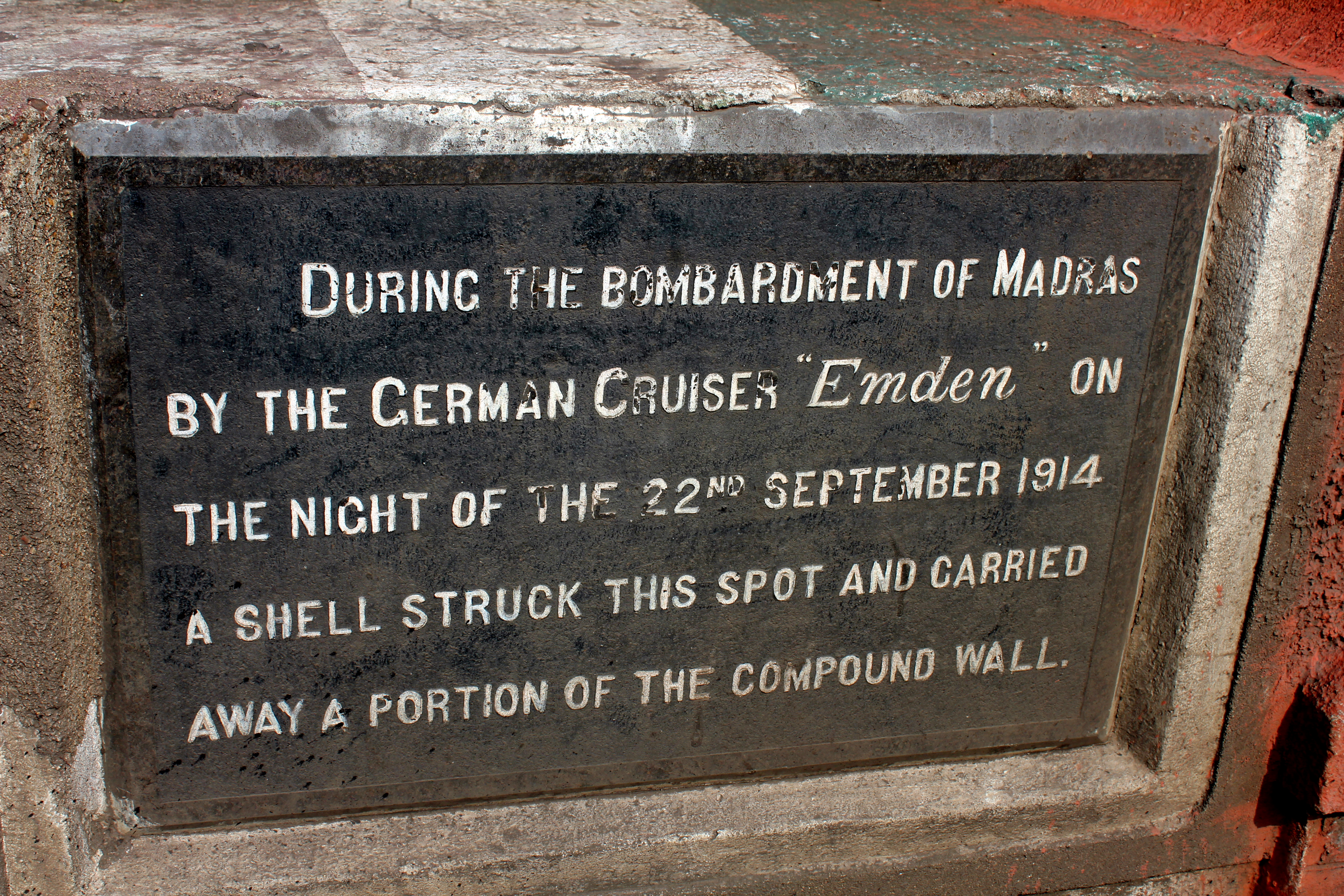 Plaque regarding bombardment of Madras. This plaque is near the Judge's gate at Madras high-court.